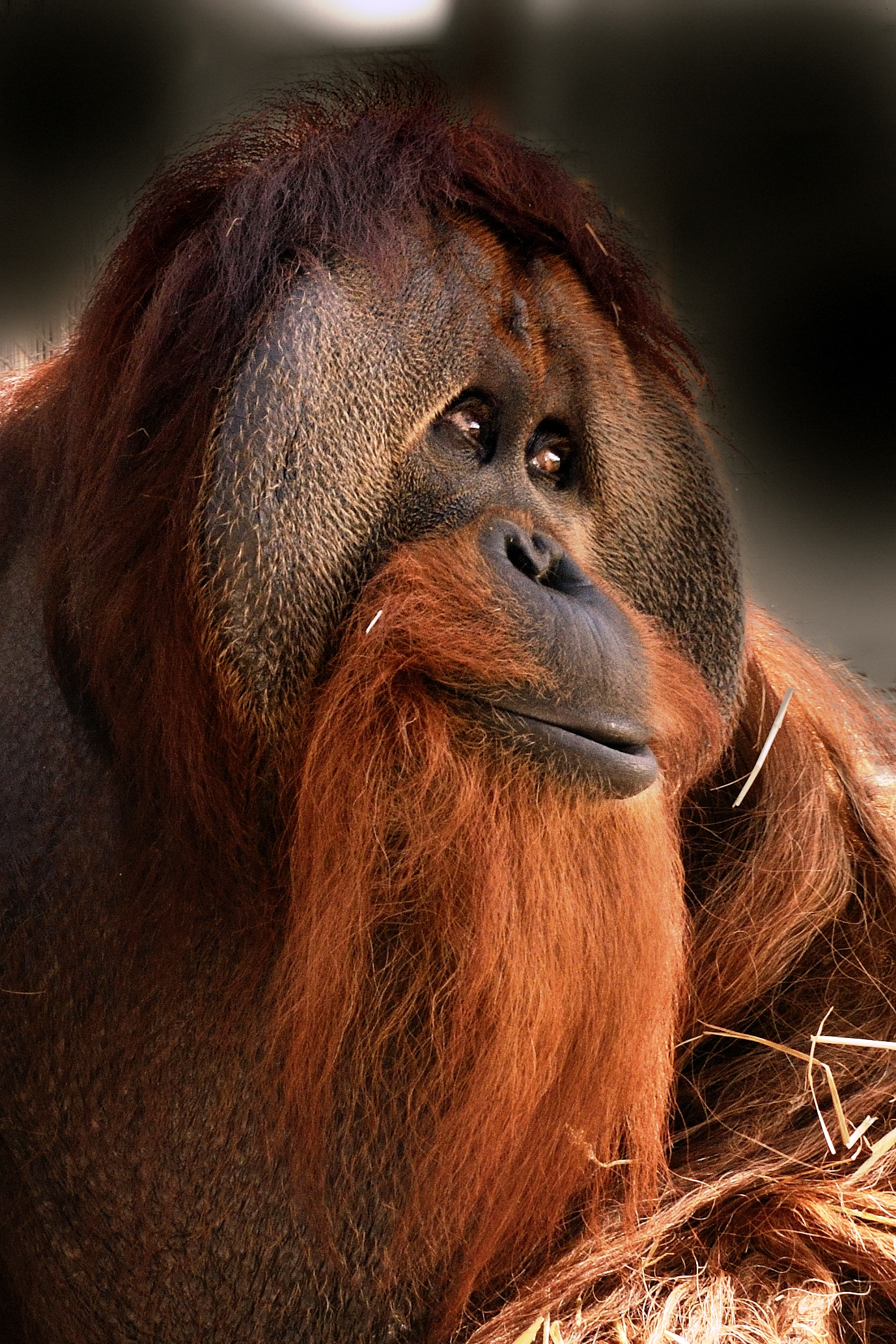 Azy, a male orangutan, has lived at the Indianapolis Zoo since 2010.